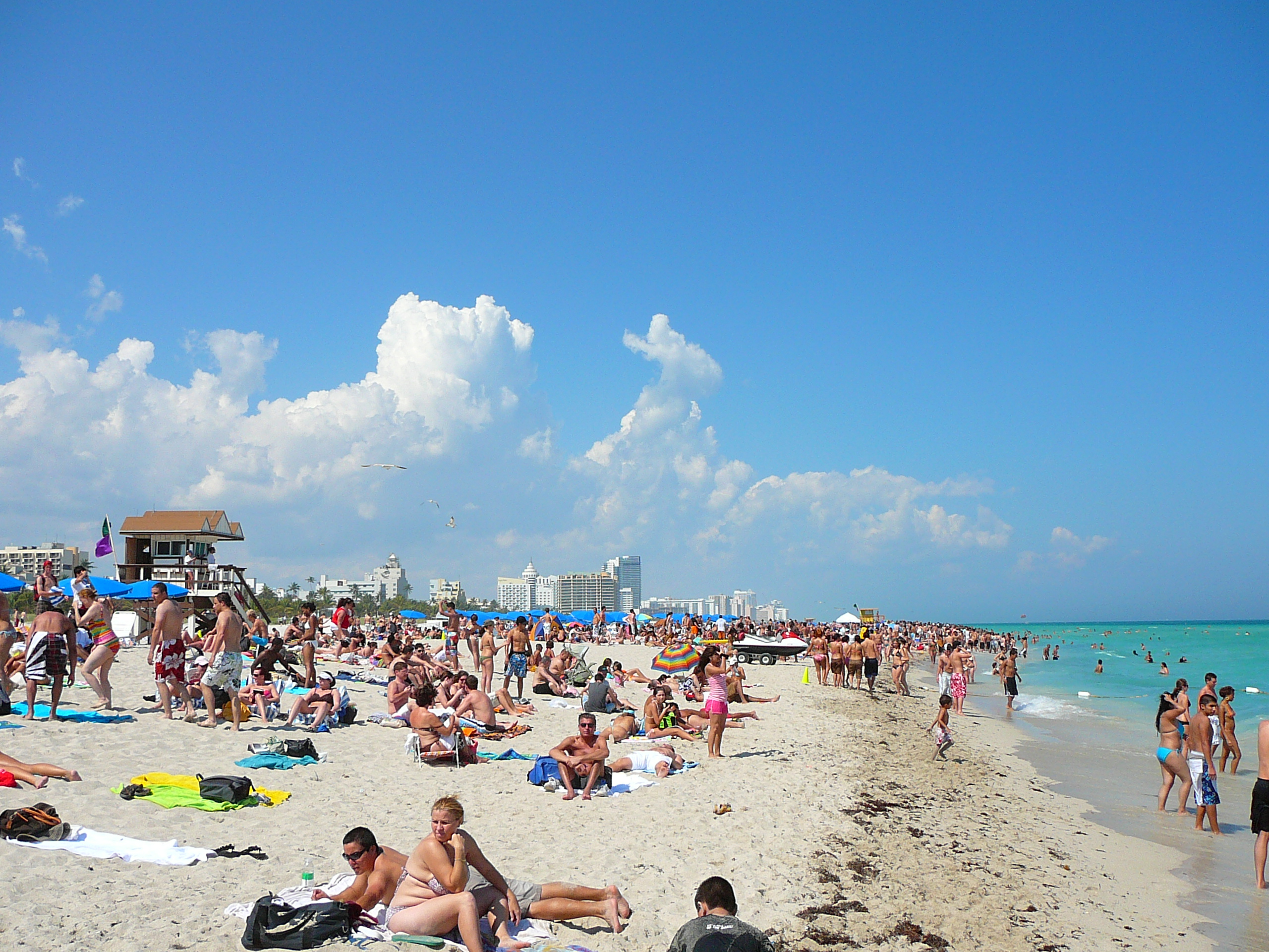 Digital photo taken by Marc Averette. A typical winter day on South Beach, Miami Beach, Florida